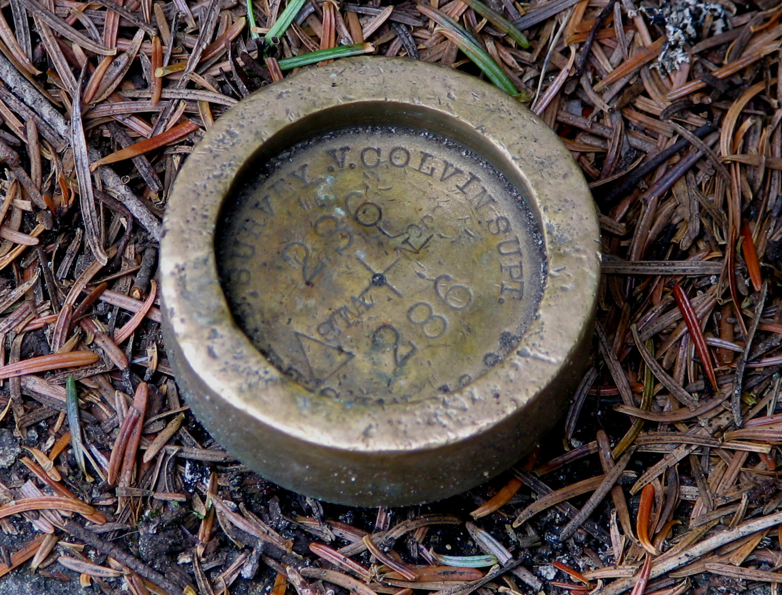 Verplanck Colvin bolt